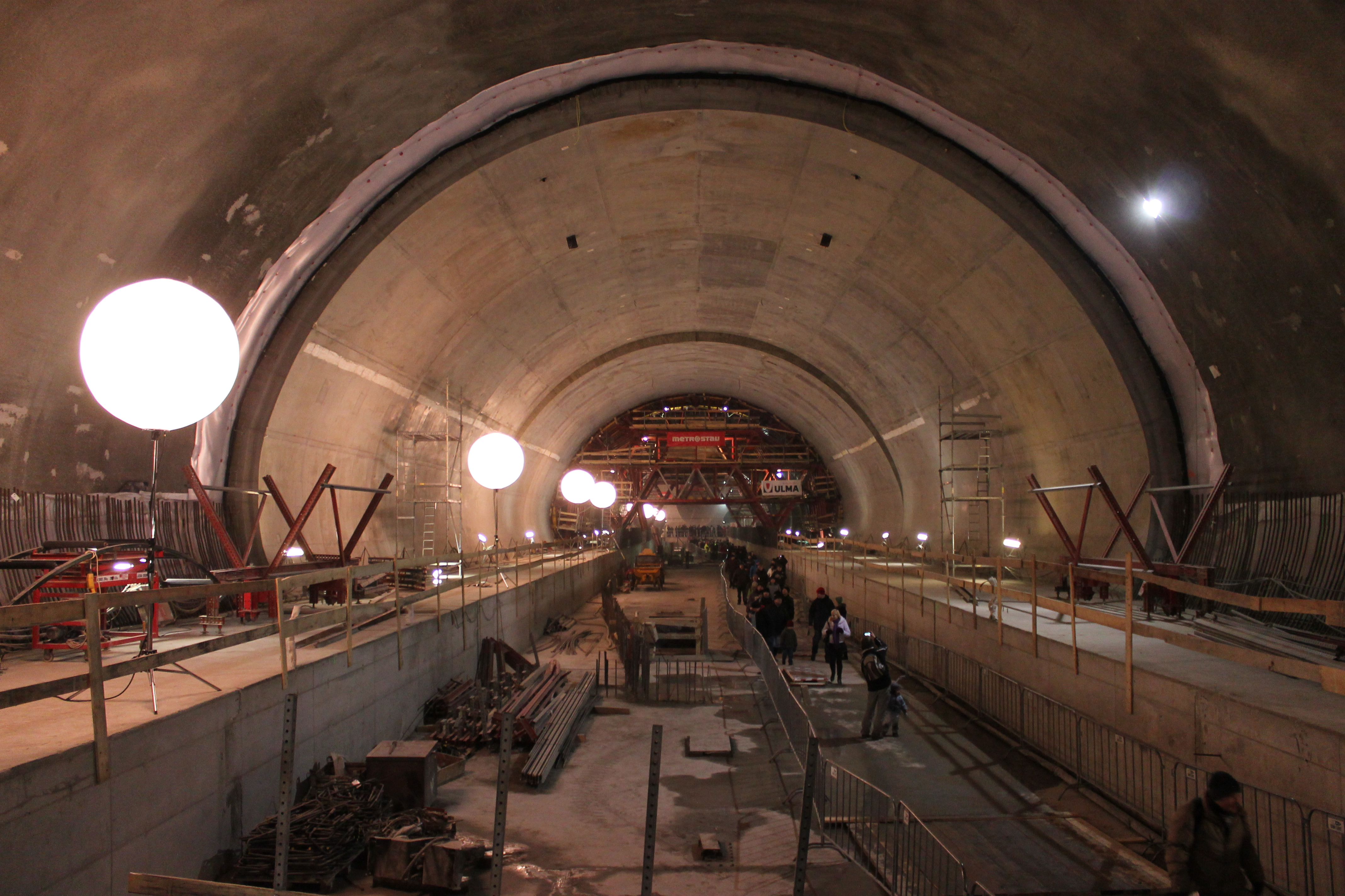 Metro station Petřiny in Prague, section V.A, open day